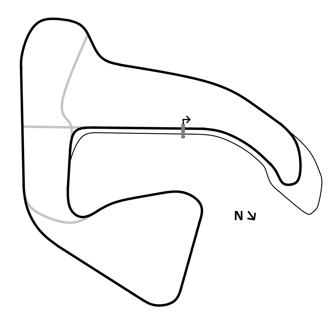 The main track layout of auto24ring, Pärnu County, Estonia.